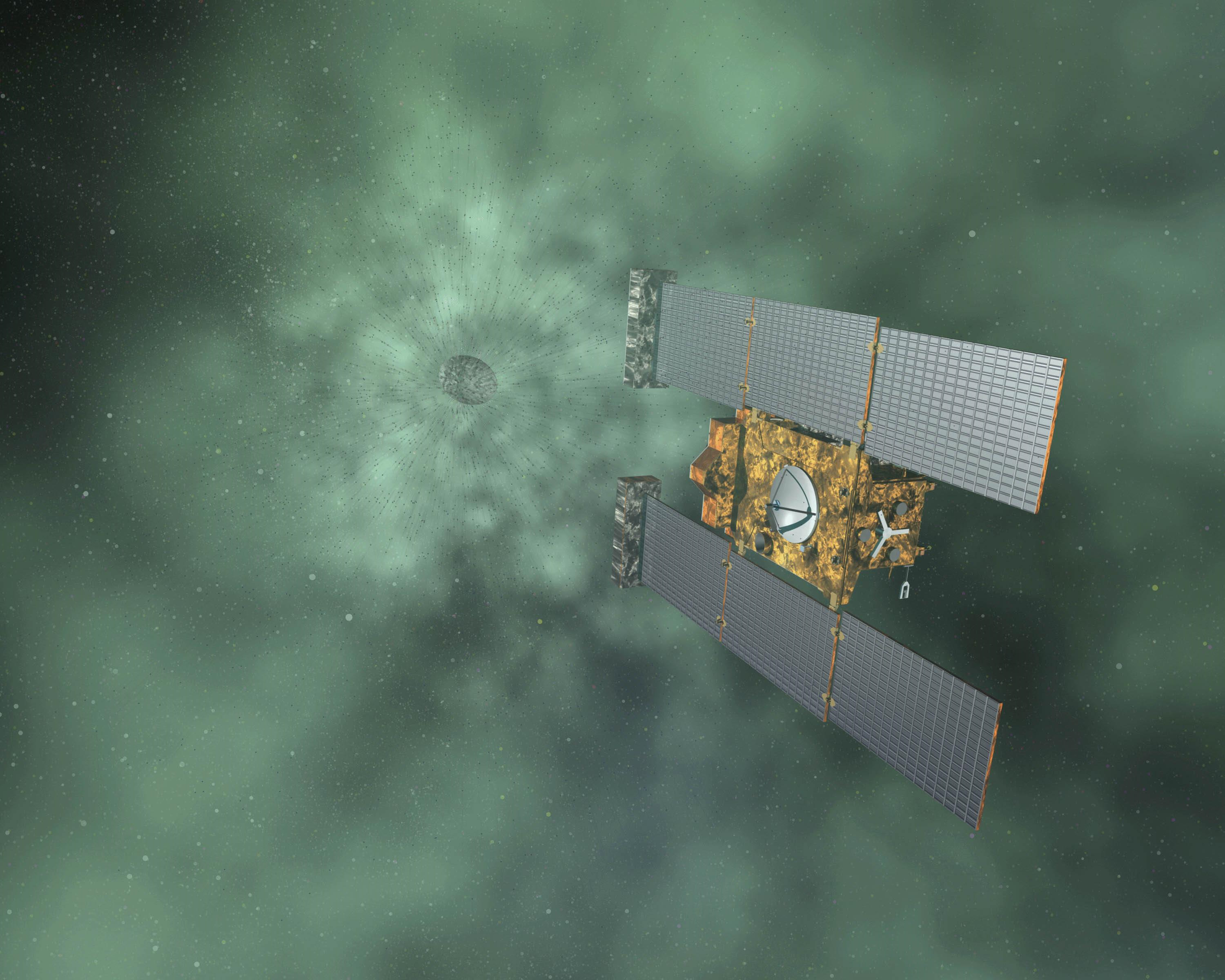 Artist concept of NASA's Stardust-NExT mission, which will fly by comet Tempel 1 on Feb. 14, 2011.